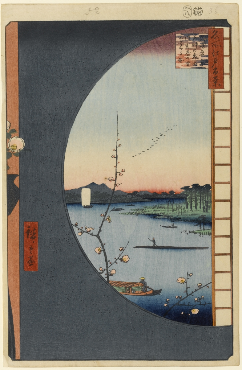 Part of the series One Hundred Famous Views of Edo, no. 036, part 1: Spring.